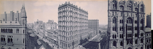 Melbourne CBD, 1903